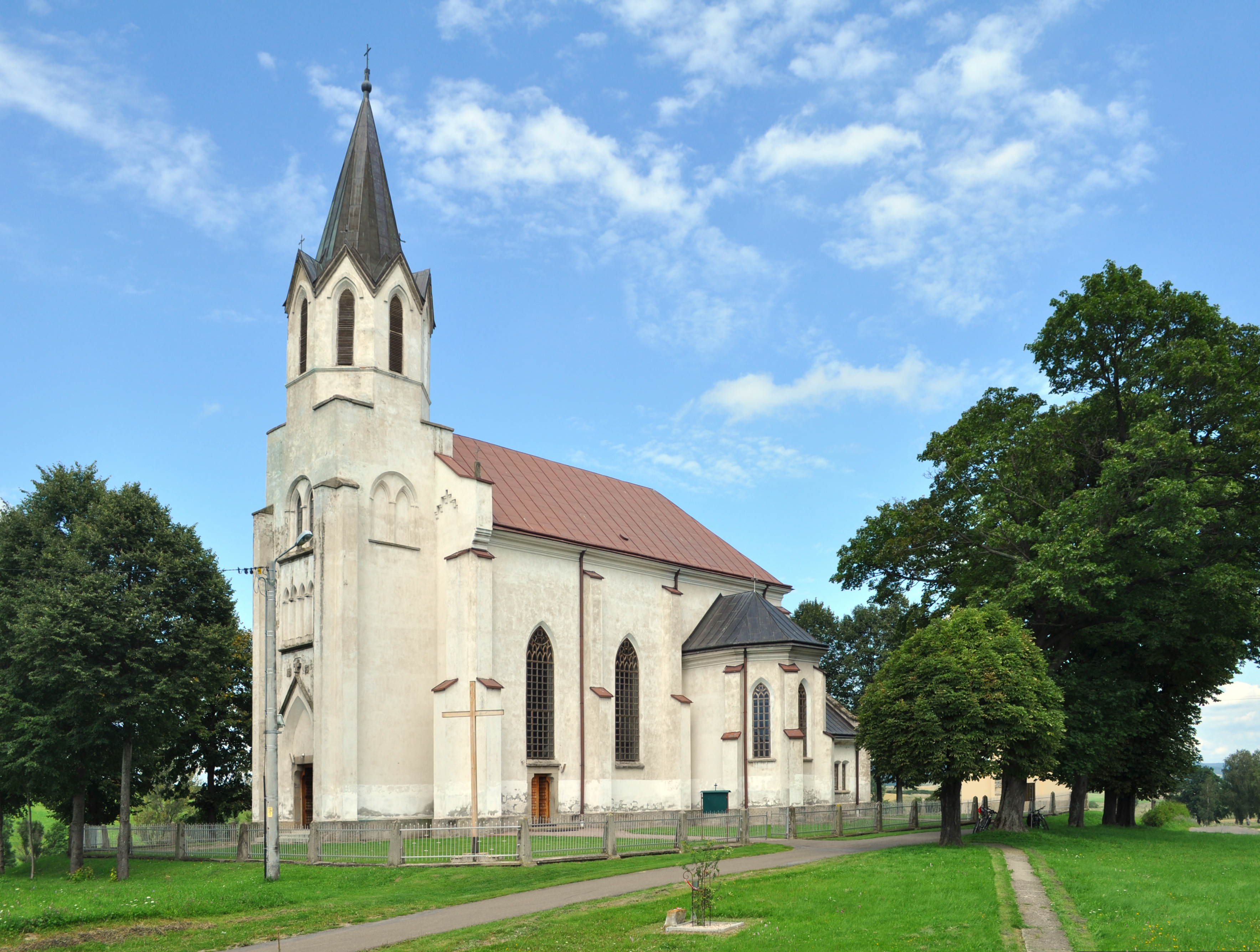 Church in Dudyńce